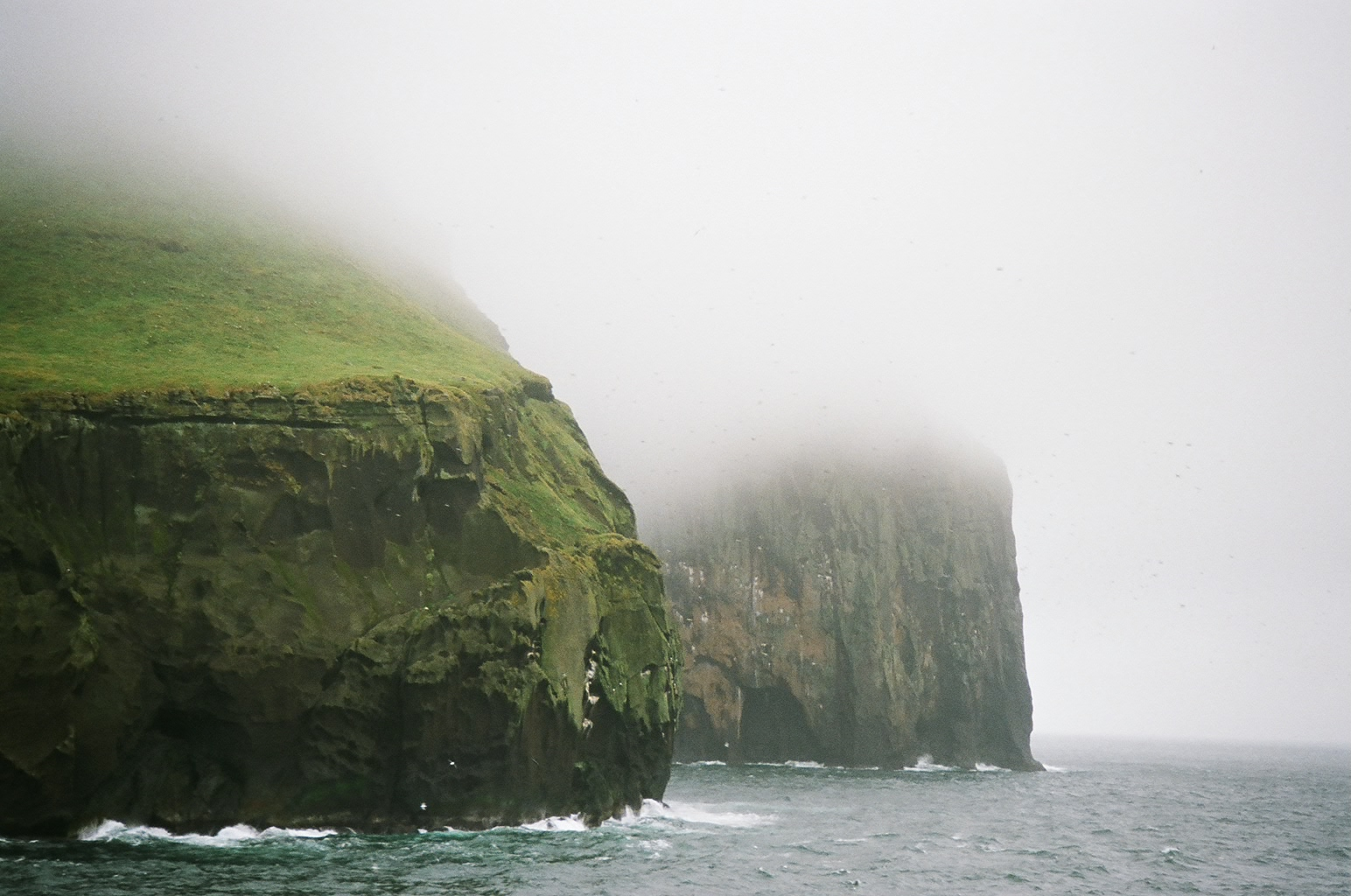 Ystiklettur cliffs, northeasternmost point of foggy Heimaey Island, Iceland.